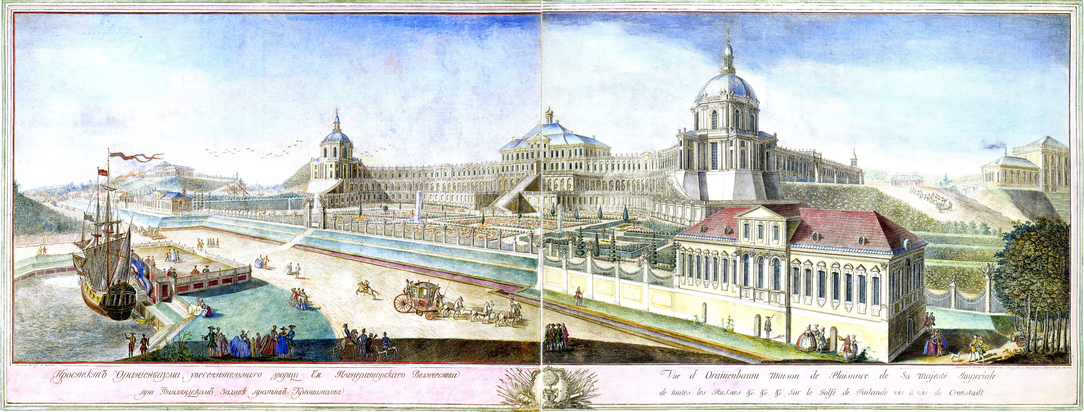 Prospect of the Grand Palace in Oranienbaum. Etching